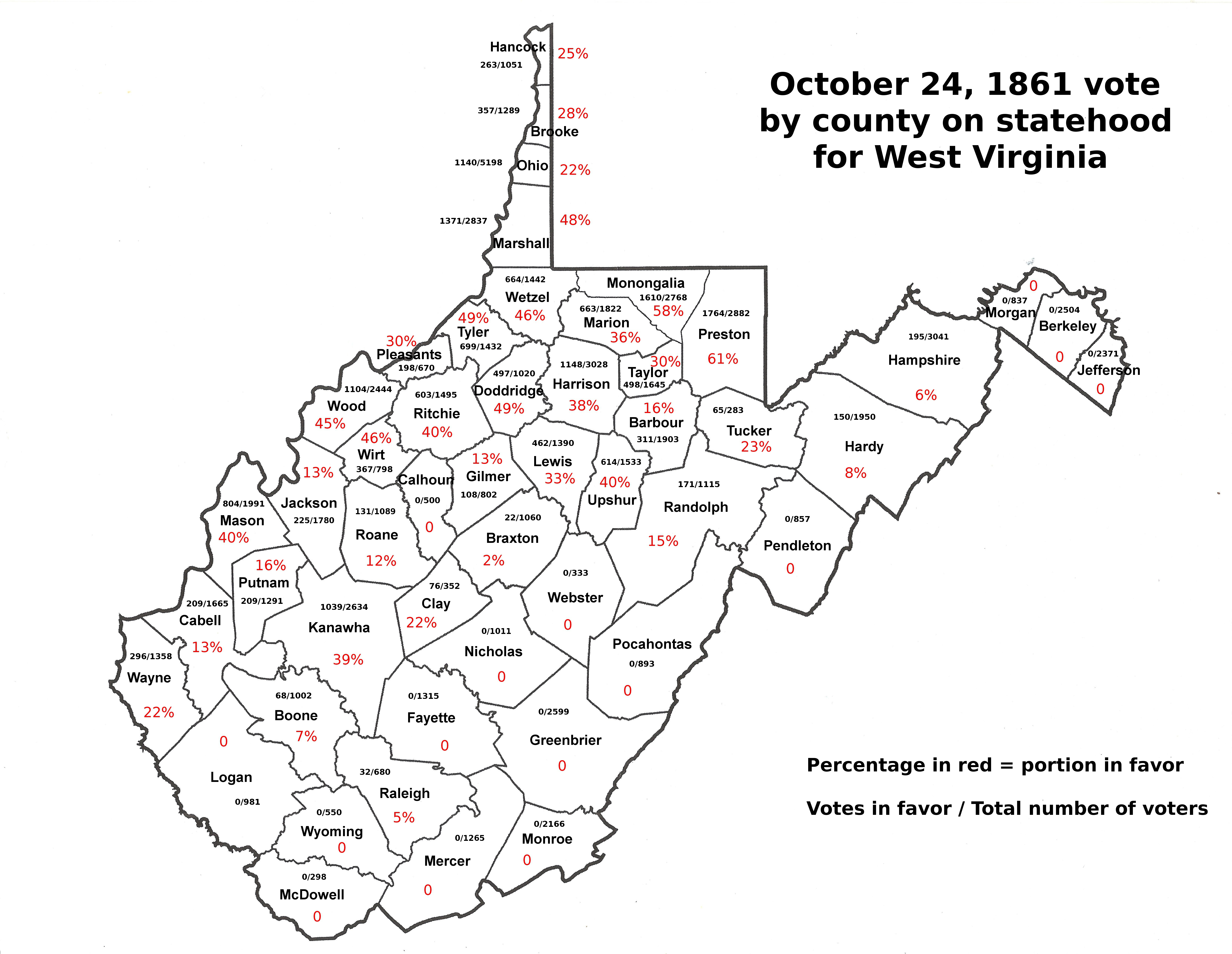 Map of the 50 western Virginia counties and the vote for a separate state cast of October 24, 1861. 1860 county census date for voter numbers for each county, 21 years old and older.